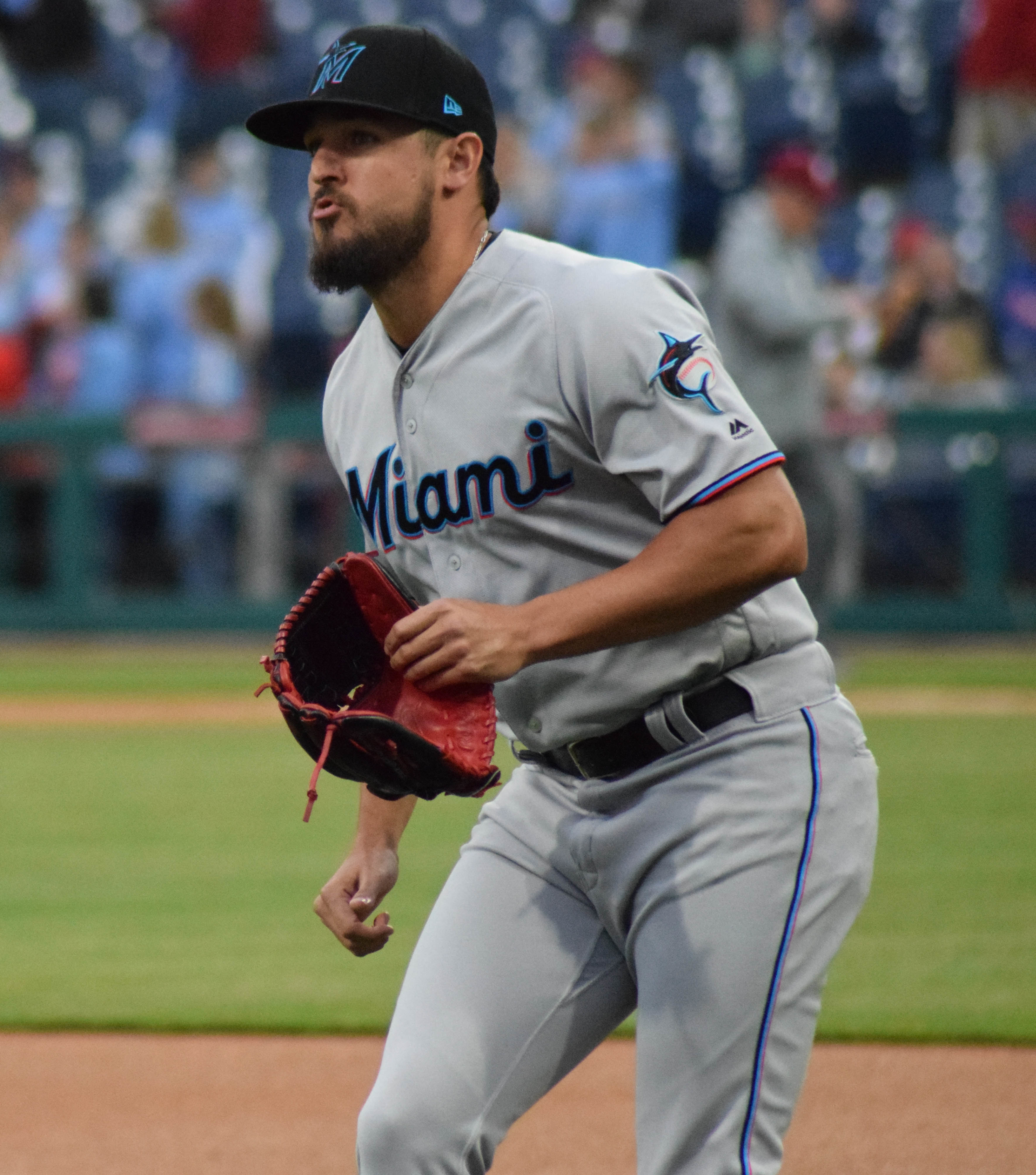 Caleb Smith with the Miami Marlins at Citizens Bank Park in April 2019